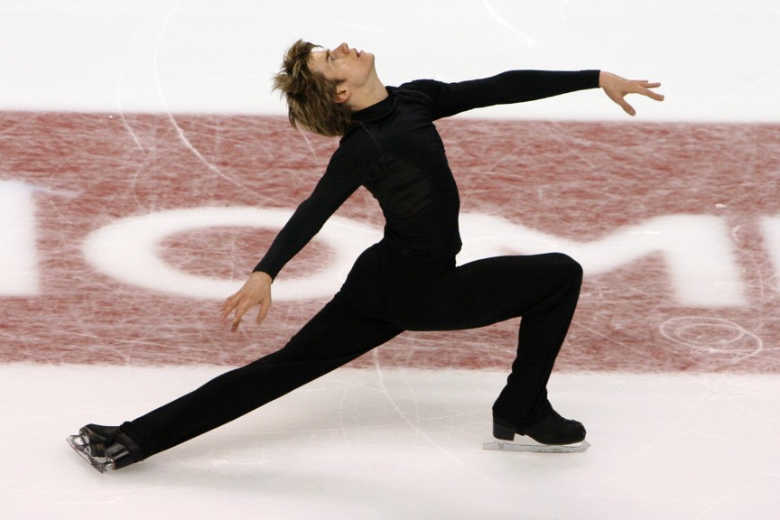 Jeffrey Buttle performs a lunge during practice at the 2007 Skate Canada International. He won the bronze medal at this competition.